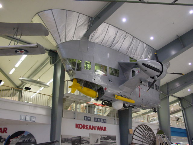 Cabin of a K class blimp in the National Museum of Naval Aviation, Pensacola, Florida, USABlimp